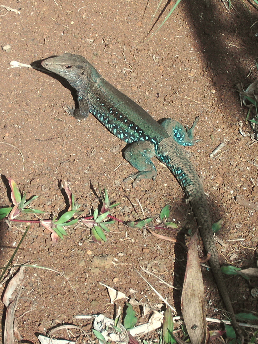 Male, endemic ameiva near Palm Tree House, Woodfordhill, Dominica, W.I. Commonly known as the Dominica Ground Lizard; locally known as the Abòlò